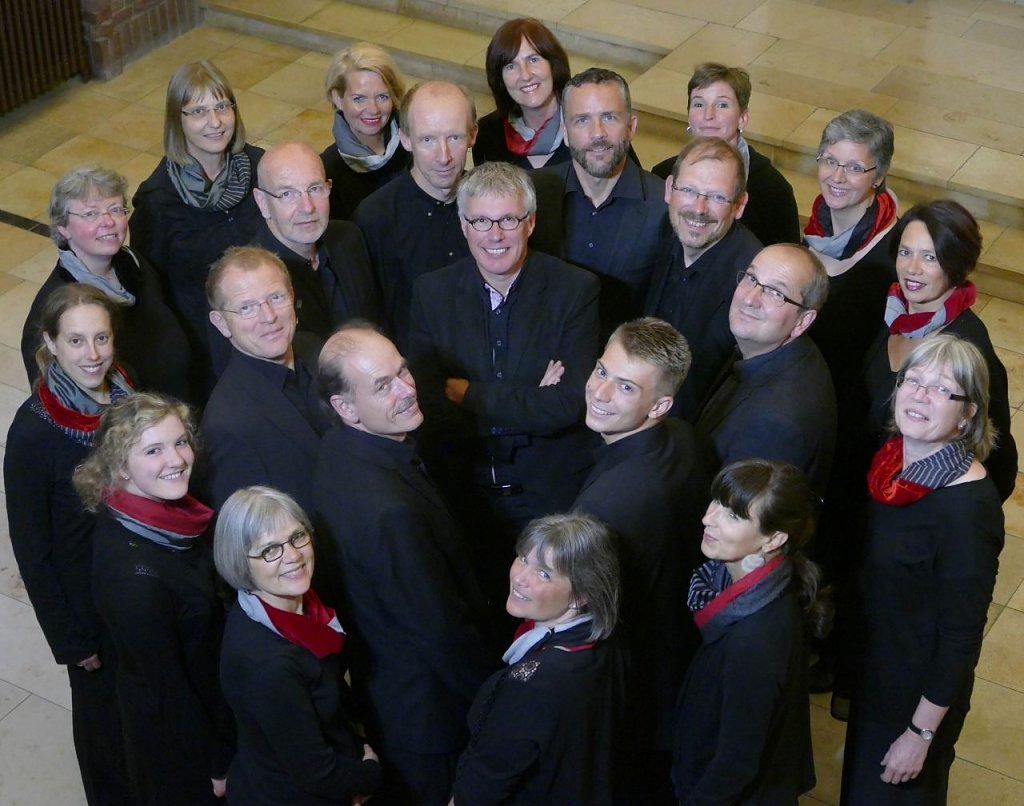 Madrigalchor Aachen